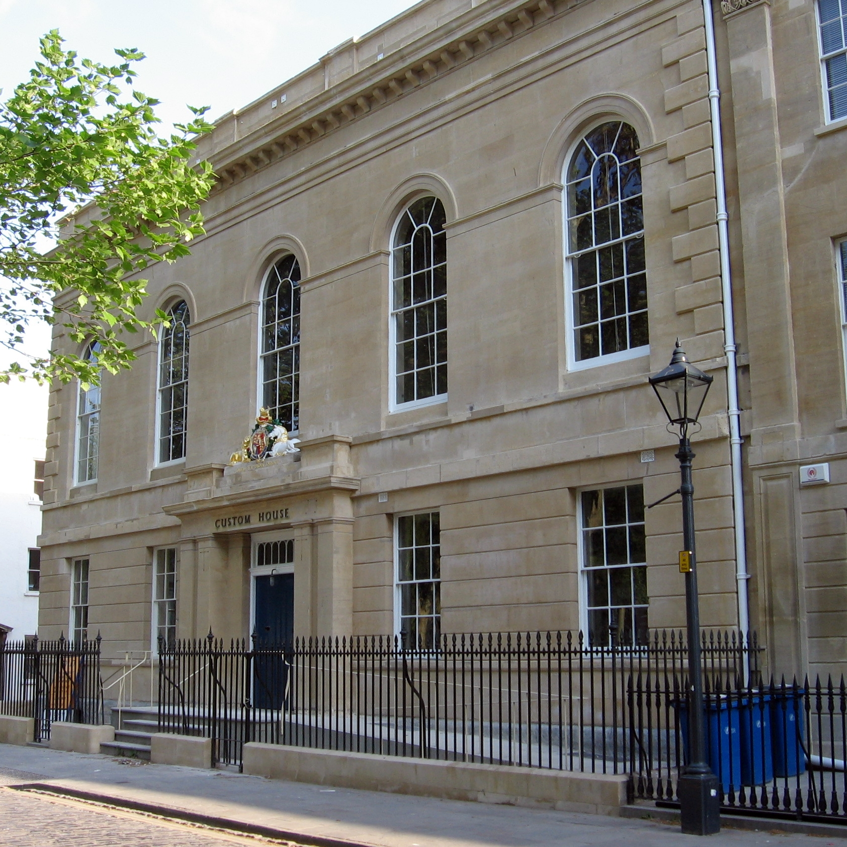 The Custom House in Queen Square, Bristol, UK. By Sydney Smirke. Listed Grade II* [1]